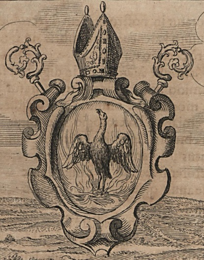 Chorographia sacra Brabantiae